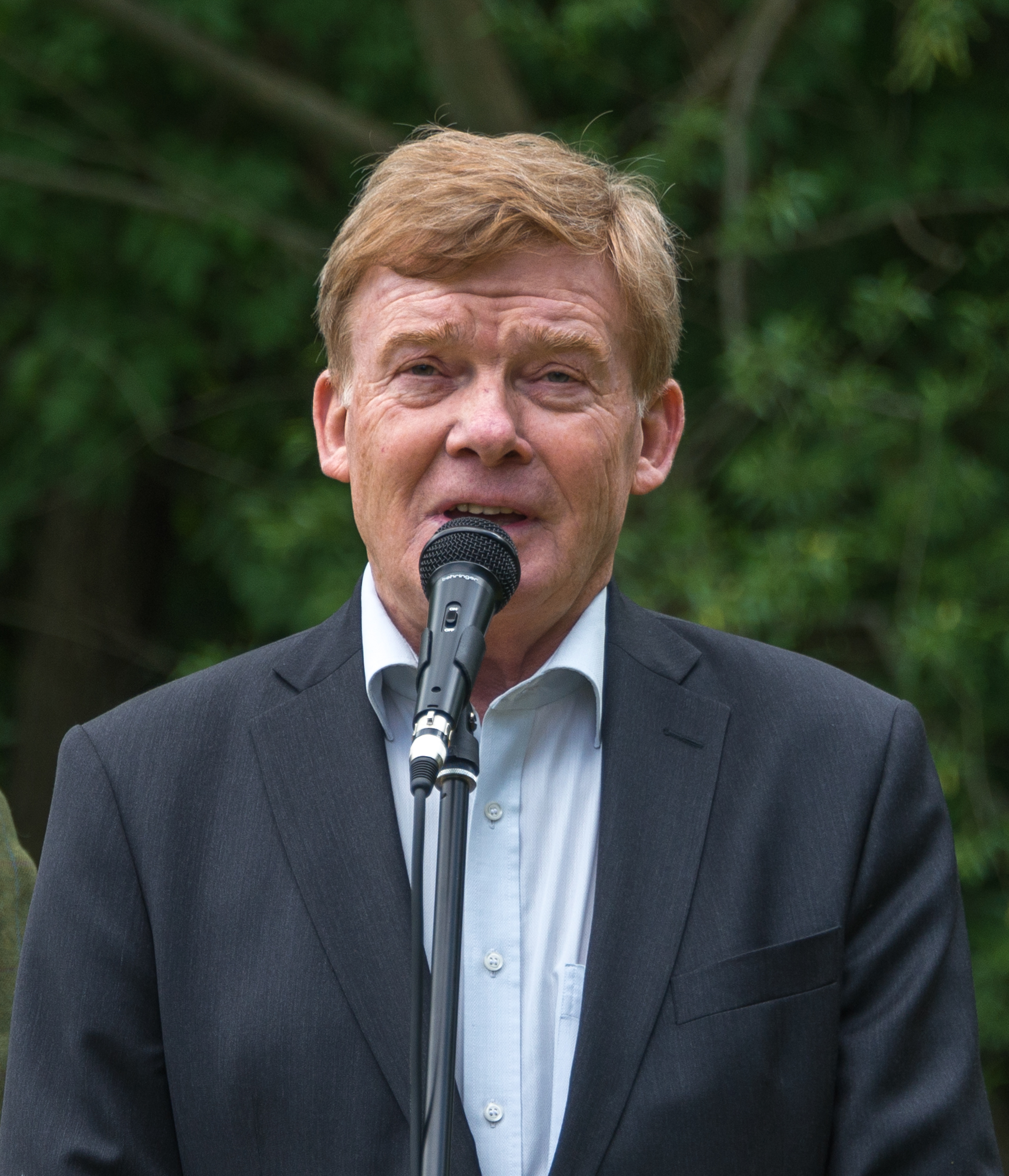 Thomas Norell during the inauguration of Tony Cragg's sculpture exhibition at Djurgården in Stockholm in the summer of 2016.